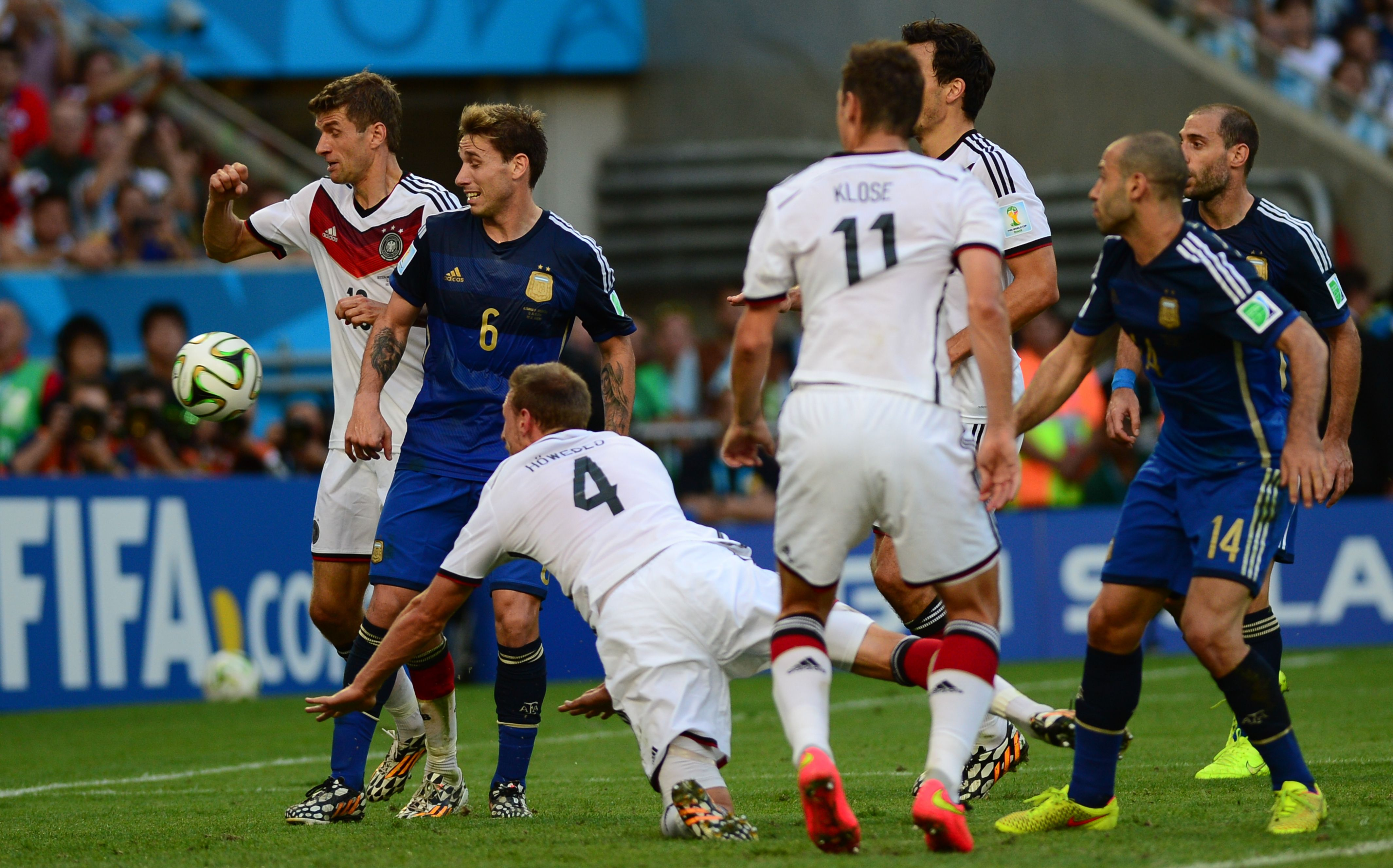 Germany and Argentina face off in the final of the World Cup